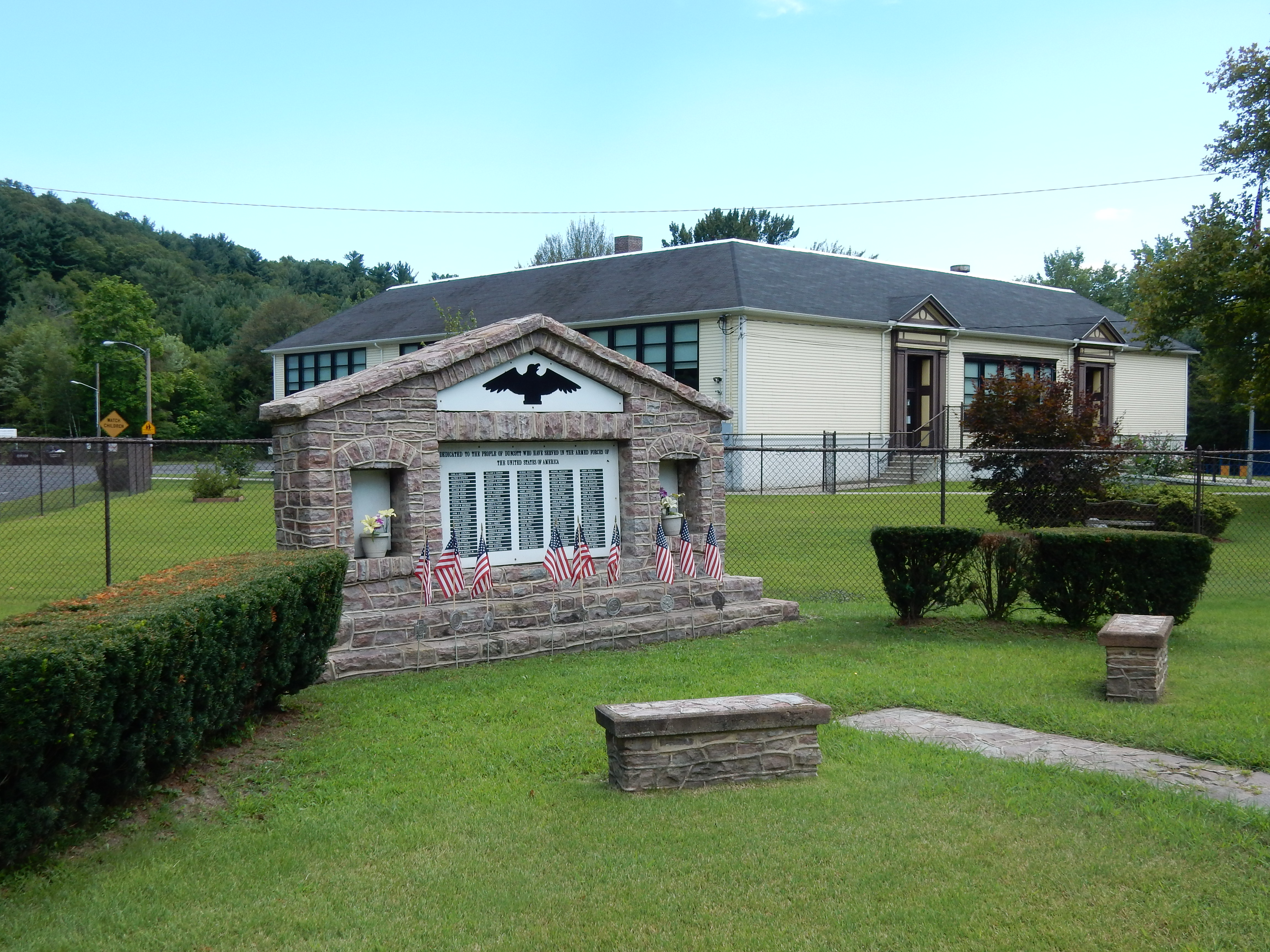 Cass Township War Memorial and Municipal Bldg., 1209 Valley Rd., Cass Township, Schuylkill County, Pennsylvania.